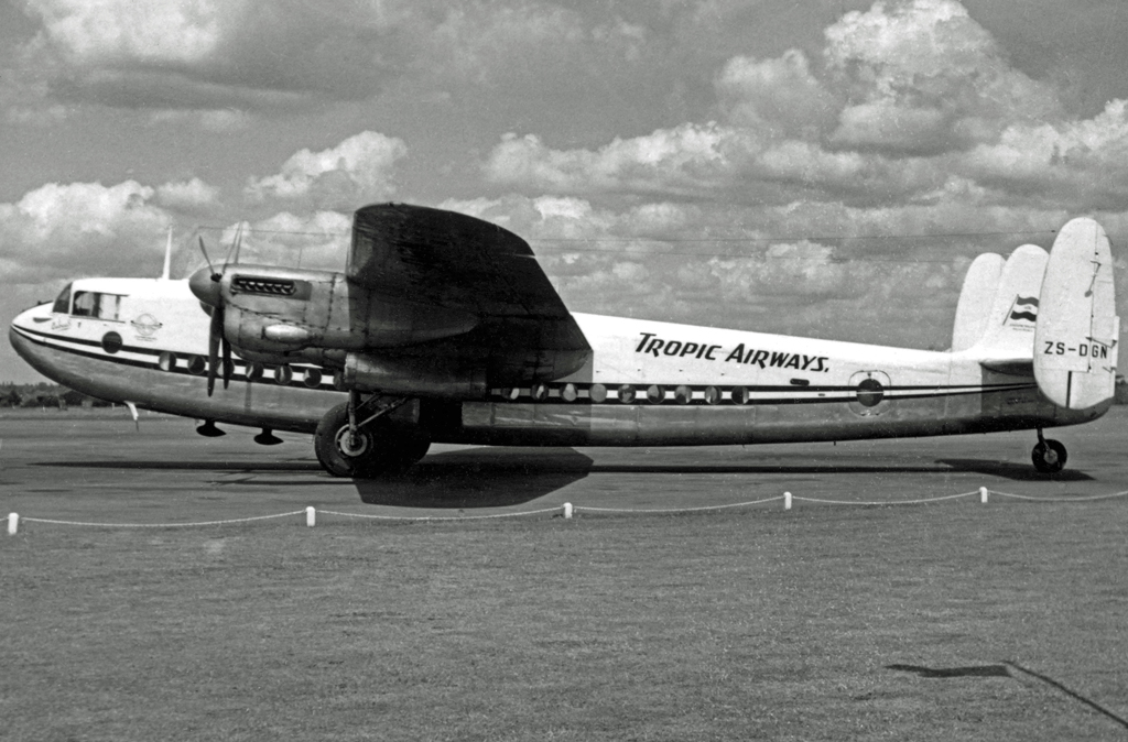 Avro 685 York C.1 ZS-DGN of Tropic Airways, South Africa, at Blackbushe Airport, England, in 1955